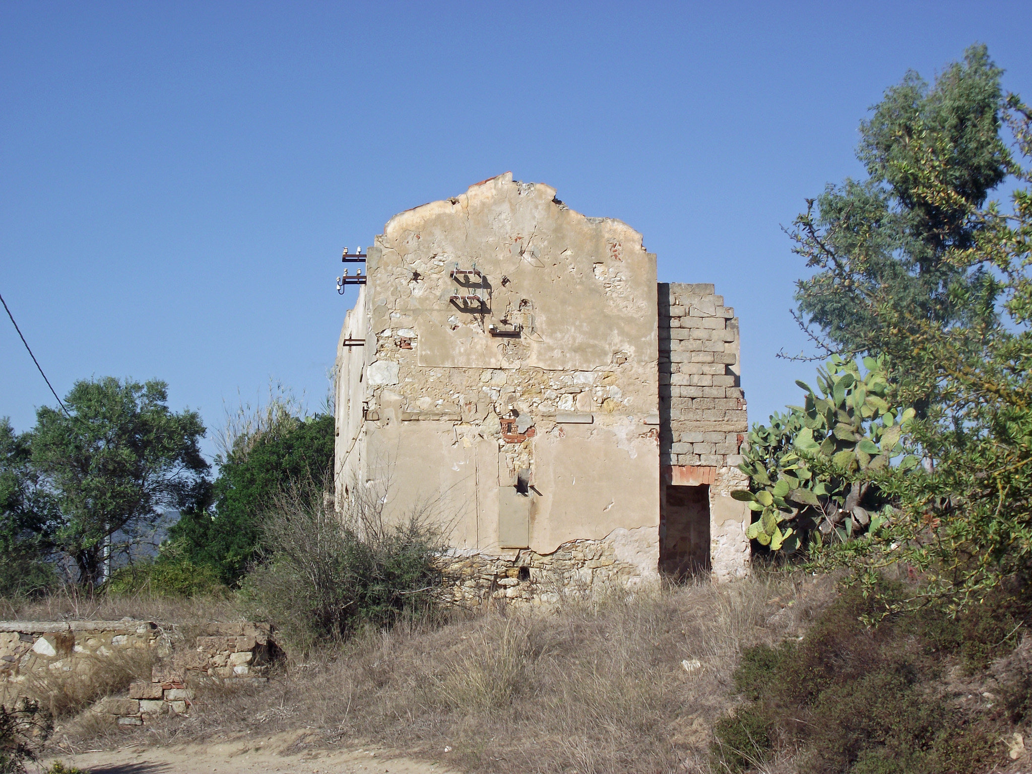 The ruins of the passenger building of the former train station of Bacu Abis, Carbonia, Sardinia, Italy